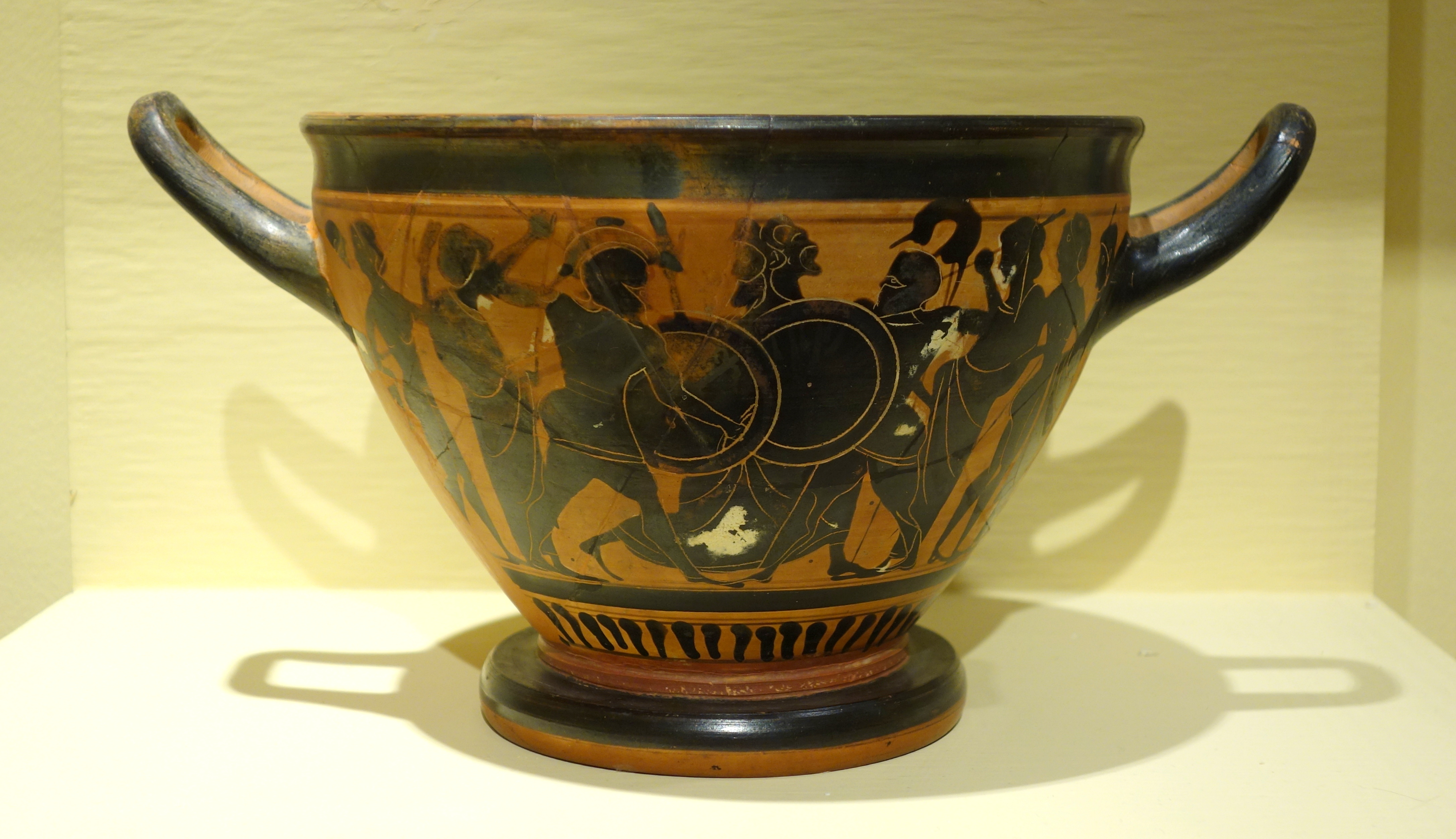 Exhibit in the Fitchburg Art Museum, Fitchburg, Massachusetts, USA. This artwork is old enough so that it is in the public domain.